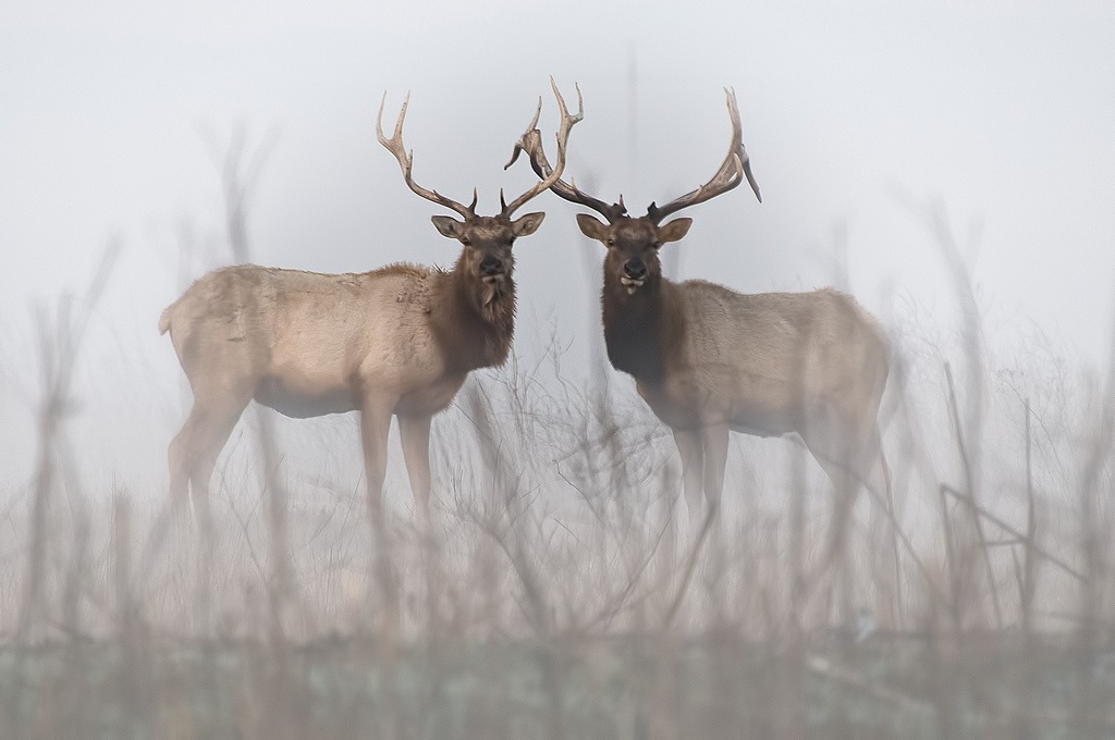 ...to stare down a visitor in this late February photo at San Luis National Wildlife Refuge in CA. Photo: Howard Ignatius, Creative Commons